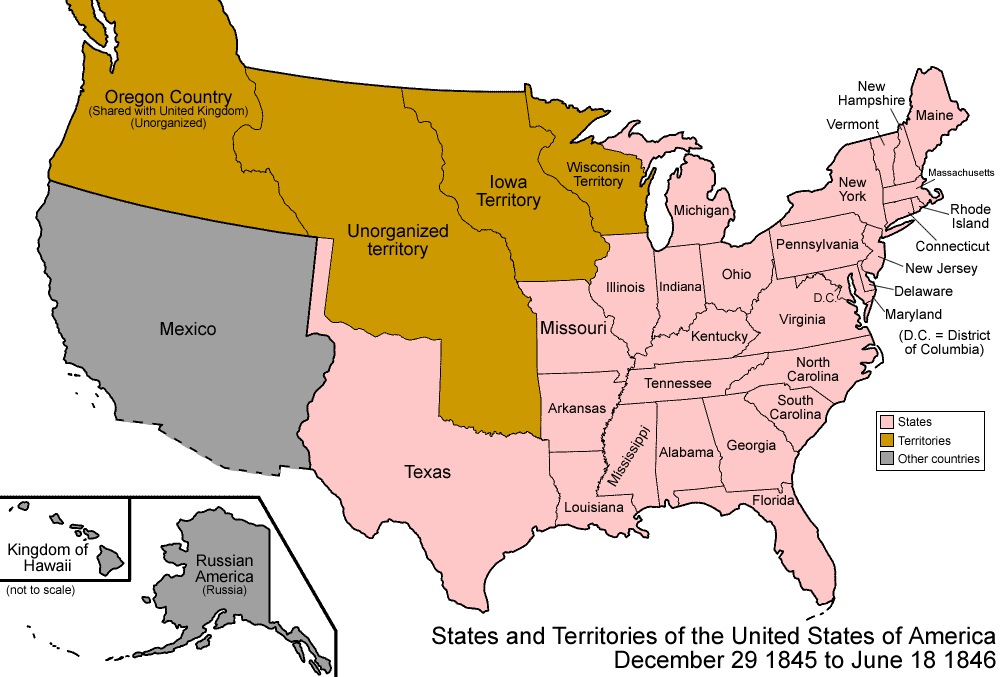 Map of the states and territories of the United States as it was from December 1845 to June 1846. On December 29 1845, the Republic of Texas and all of its claimed lands were admitted as the state of Texas, including Miller County. On June 18 1846, Oregon Country below the 49th parallel, excluding Vancouver Island, was incorporated in to the United States as unorganized territory.